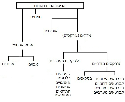 Northwest Caucasian Family Tree Hebrew